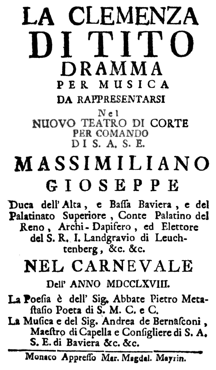 Andrea Bernasconi - La clemenza di Tito - italian titlepage of the libretto - Munich 1768